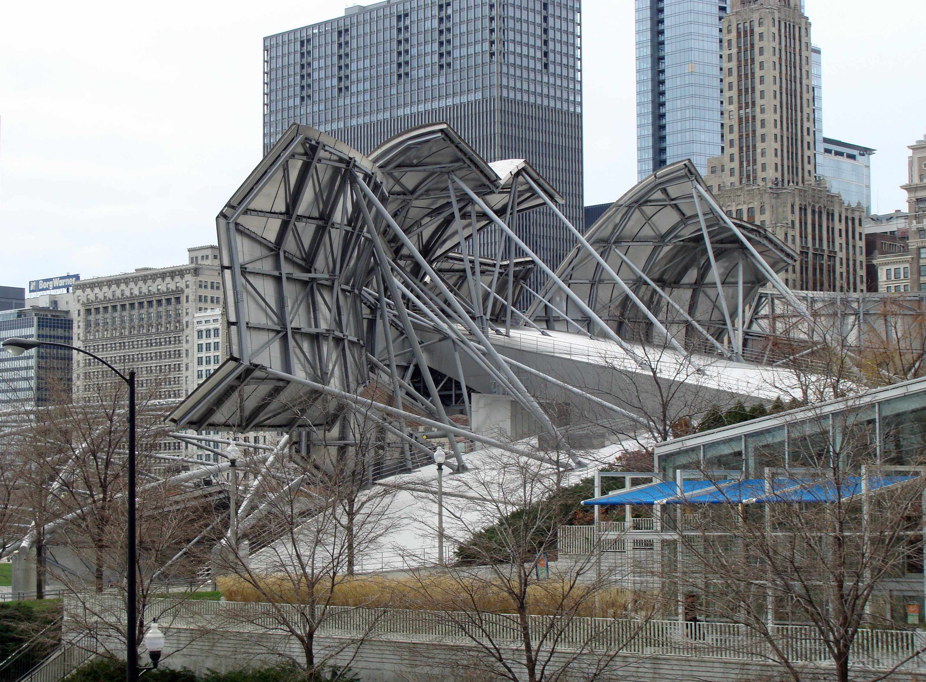 Back, east of Jay Pritzker Pavilion from Randolph